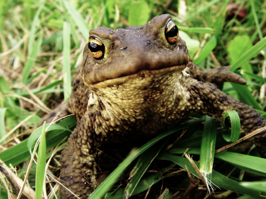 a photo i made by myself